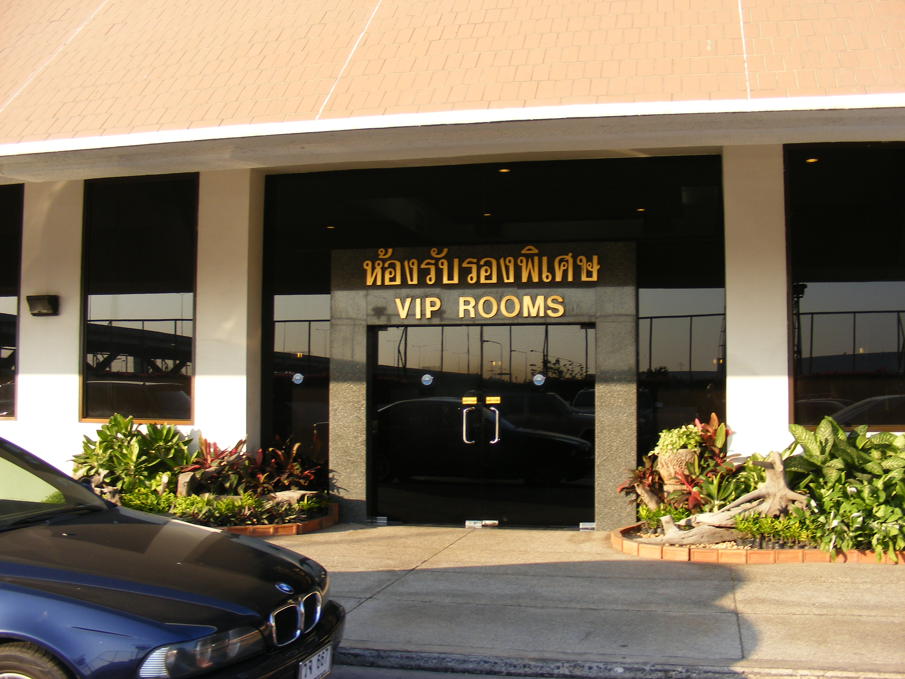 Don Mueang Airport near Bangkok, Thailand - Domestic terminal - VIP rooms seen from outside.